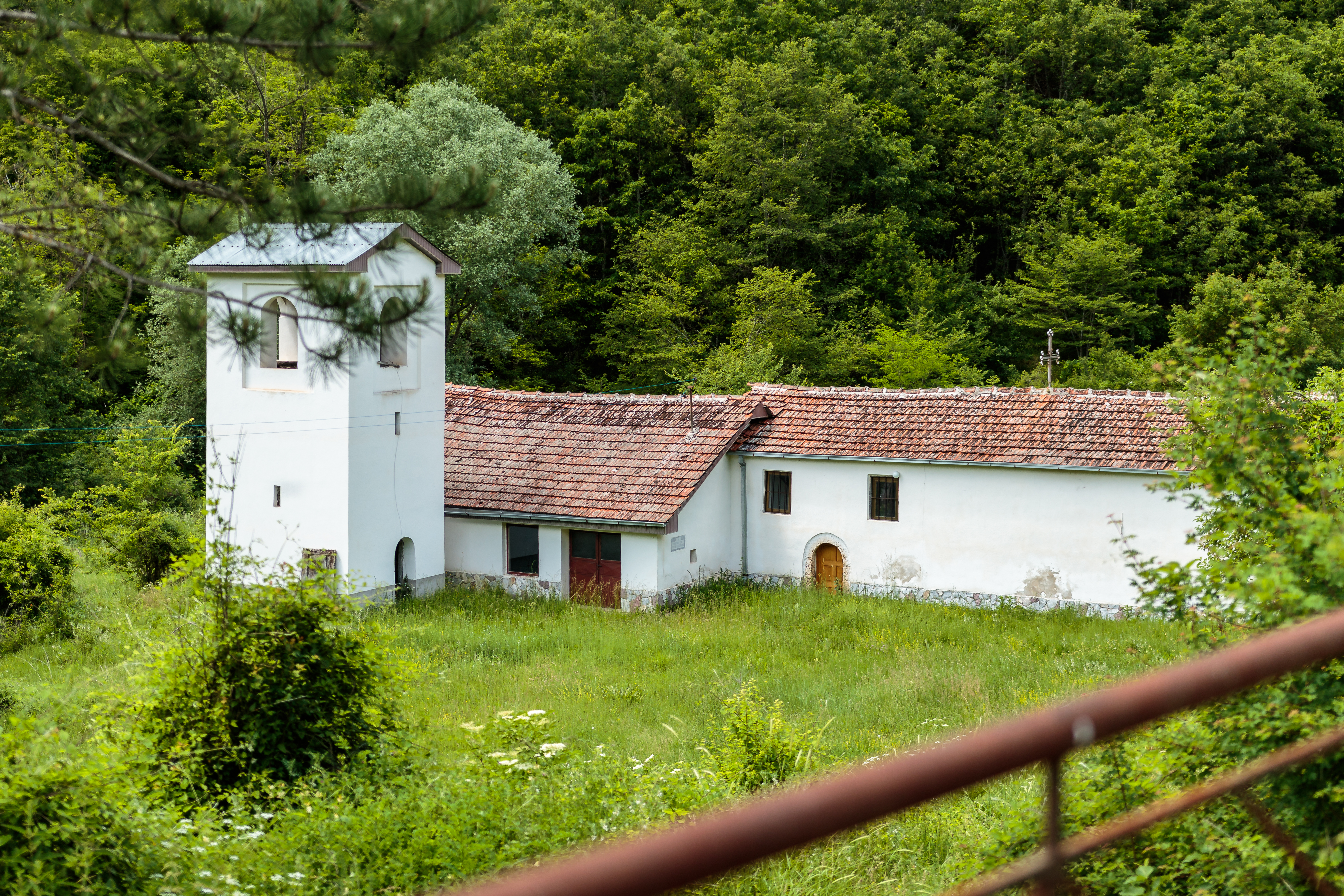 View of the Old Church of the Theotokos in the village Dolenci